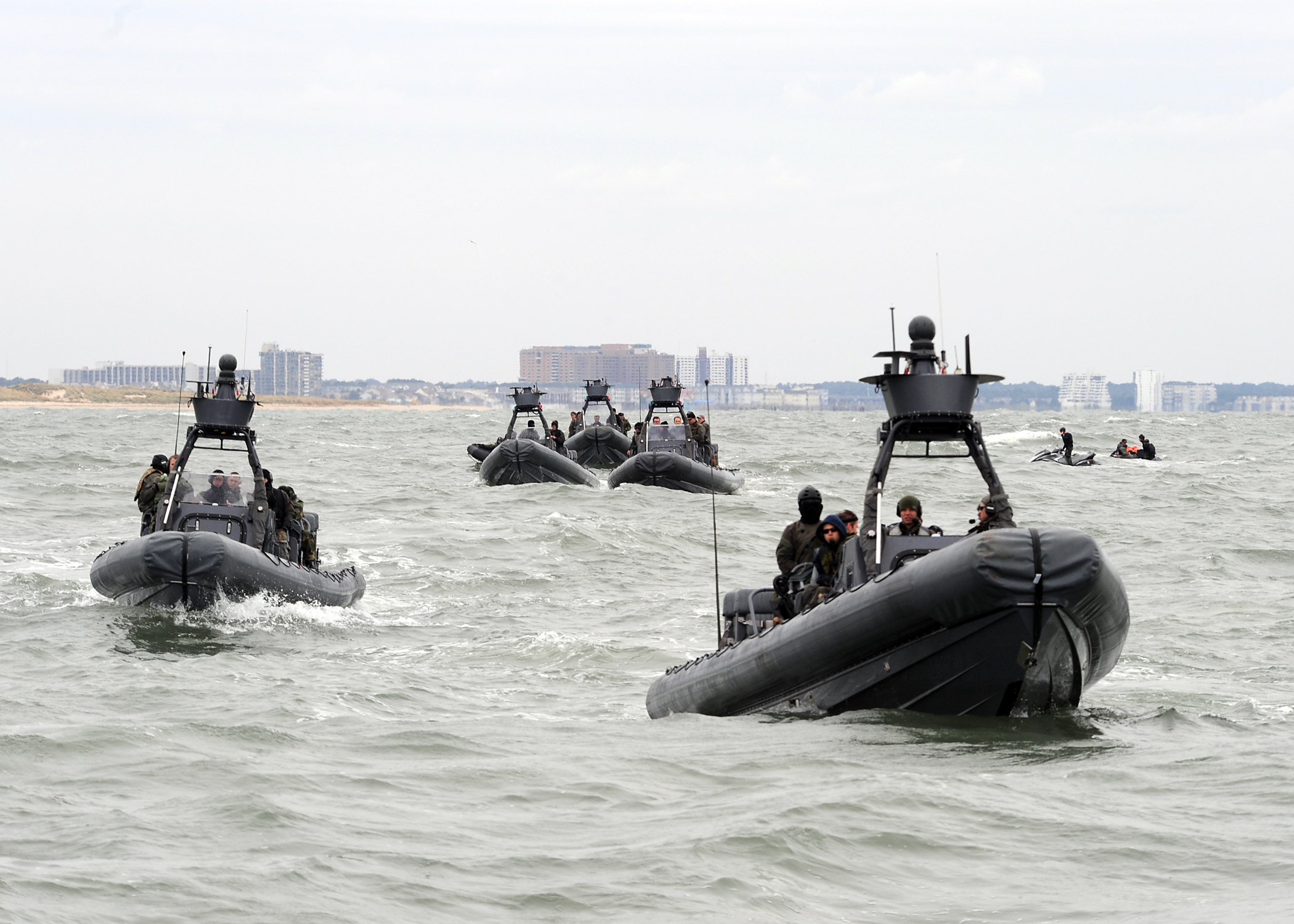 VIRGINIA BEACH, Va. (Oct. 14, 2009) Sailors assigned to Special Boat Team 20 standby in naval special warfare 11-meter, rigid hull inflatable boats to recover Soldiers participating in the Wounded Warrior Program before the launch of the Maritime Craft Aerial Deployment System off Virginia Beach. (U.S. Navy photo by Mass Communication Specialist Chief Kathryn Whittenberger/Released)